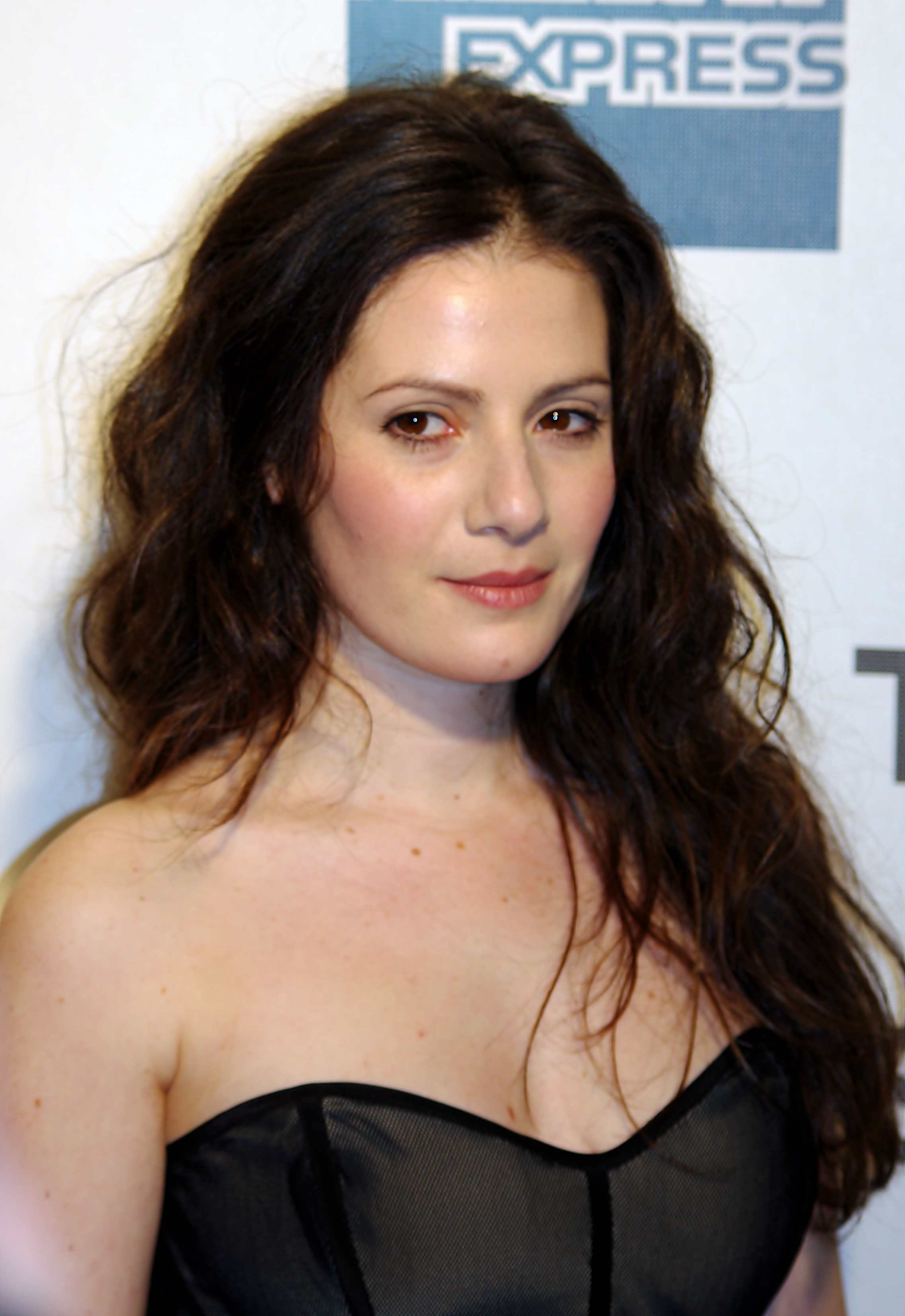 Aleksa Palladino at the 2011 Tribeca Film Festival opening of The Bang Bang Club.